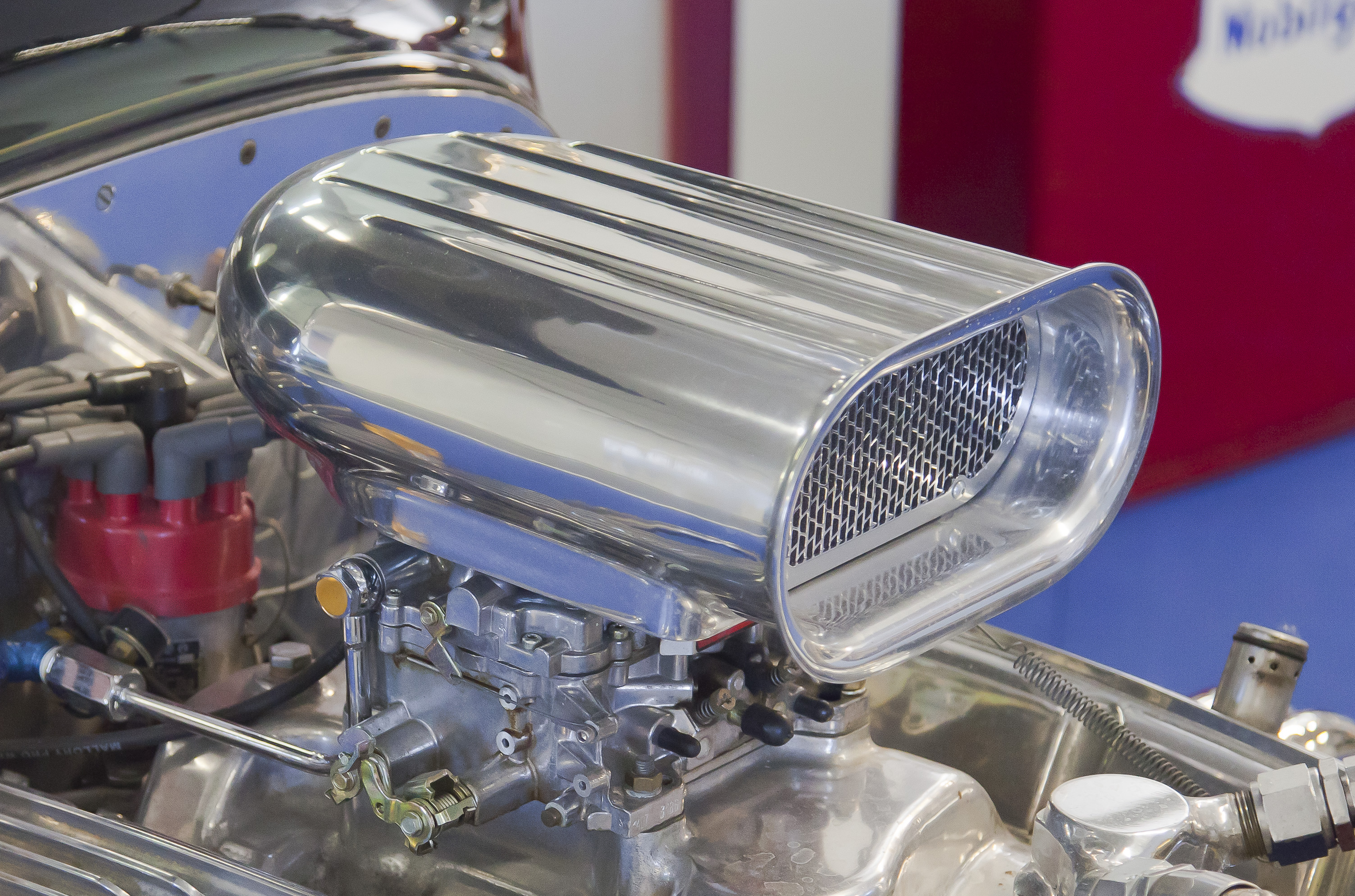 Ford T-Hot of 1923, Helsinki, Finnland